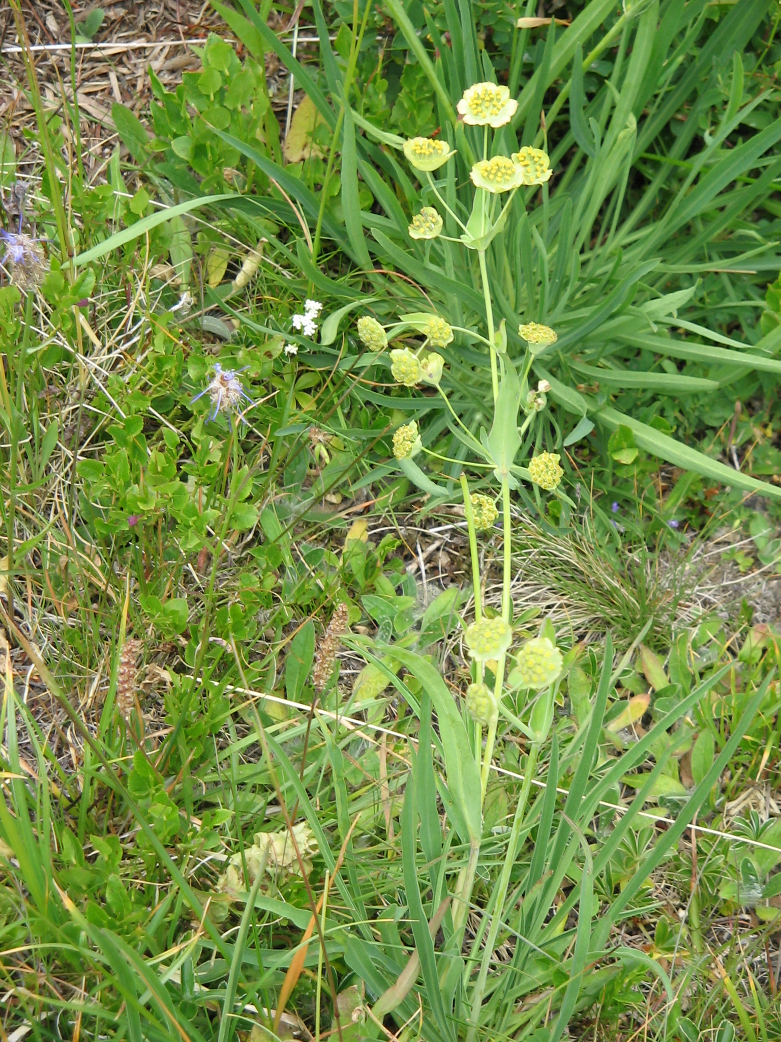 Bupleurum stellatum